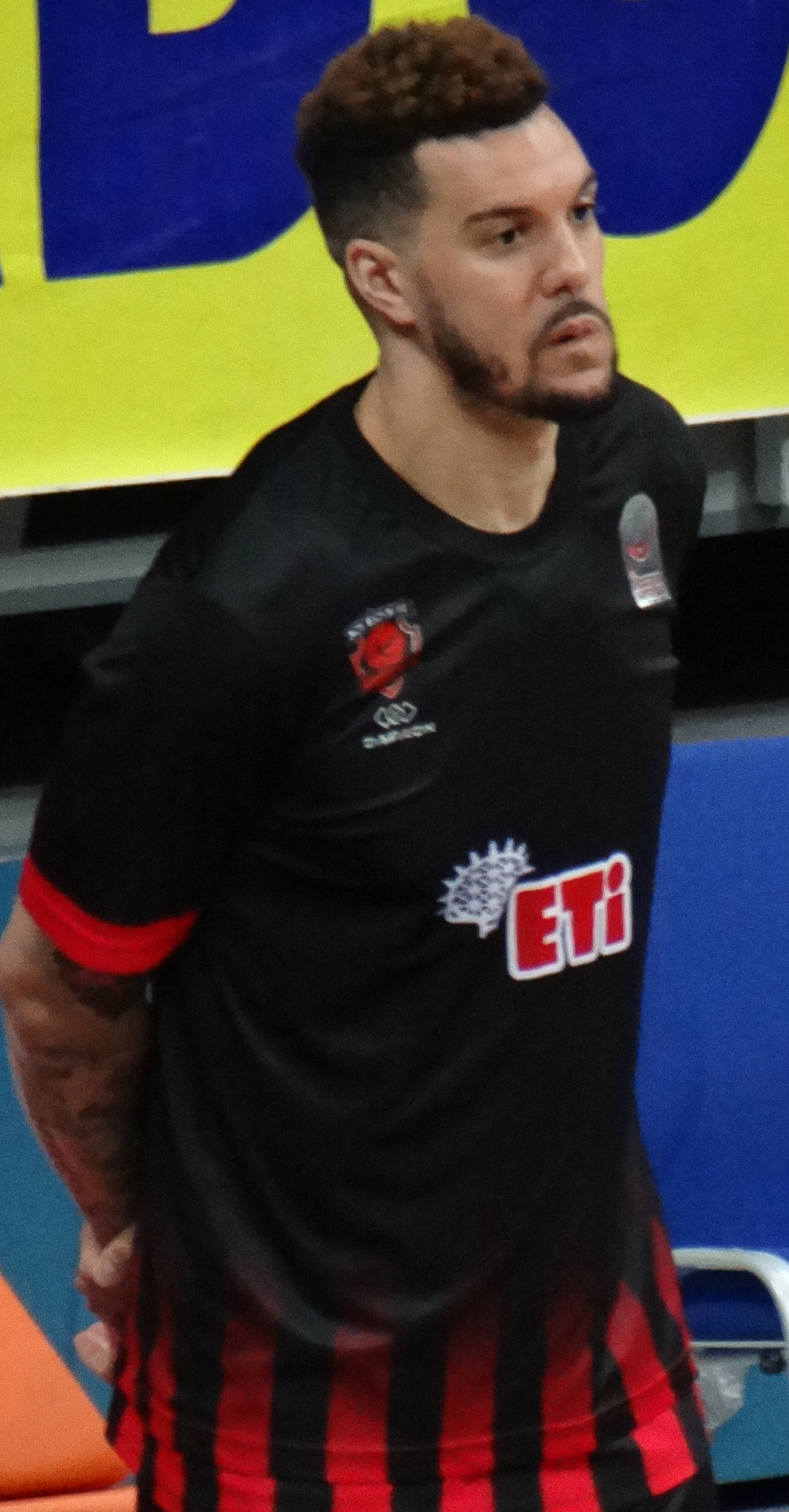 Sean Marshall (basketball) 23 Eskişehir Basket TSL 20180325